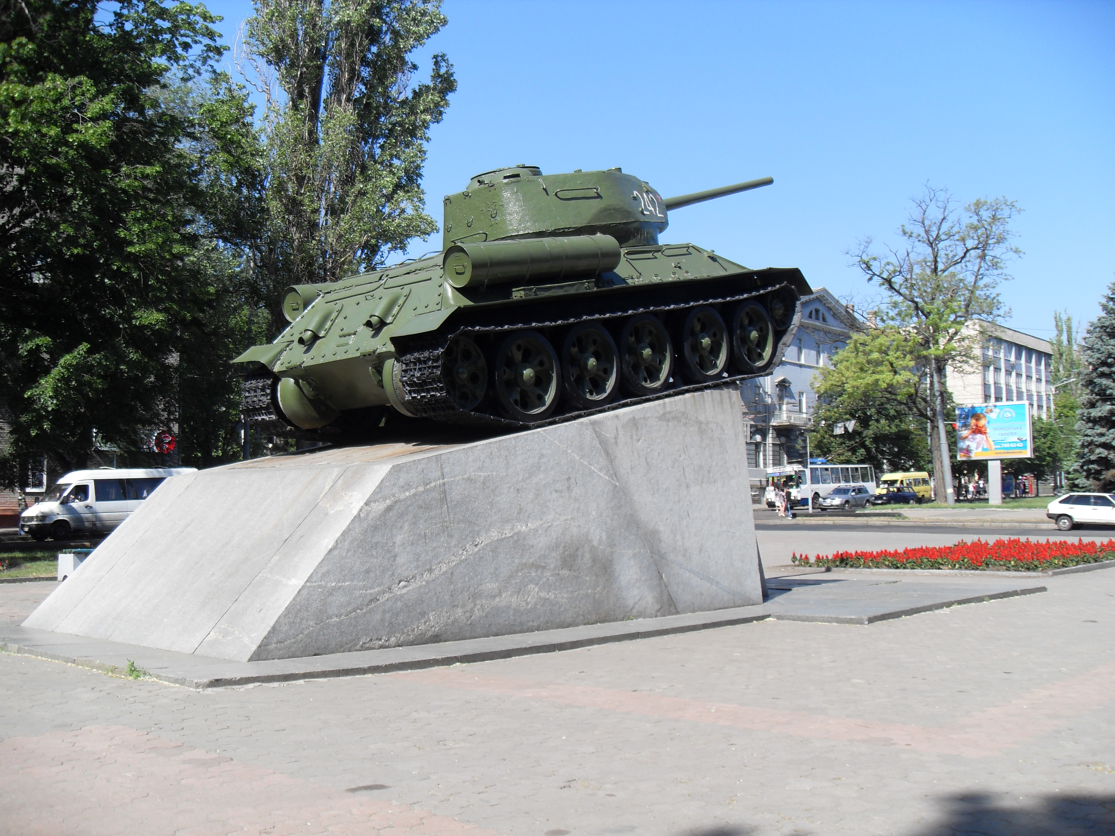 T-34 light tank monument in memory of the soviet commander E. G. Pushkin (28.01.1899 - 11.03.1944) -General of tank troops and Hero of the Soviet Union (1941). Dnipropetrovsk, Ukraine.